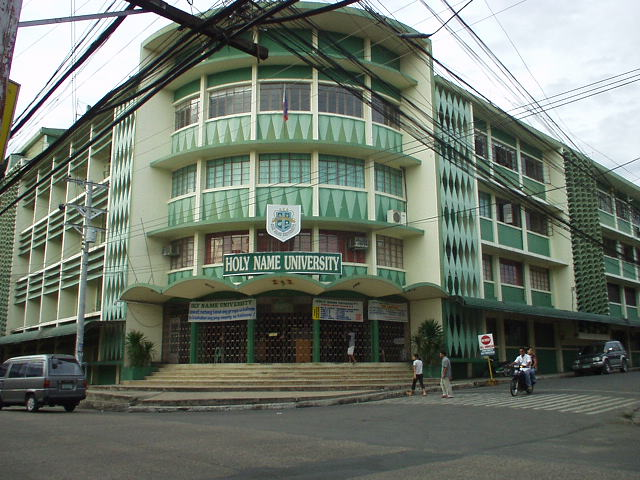 Holy Name University, Tagbilaran City, Bohol, Philippines